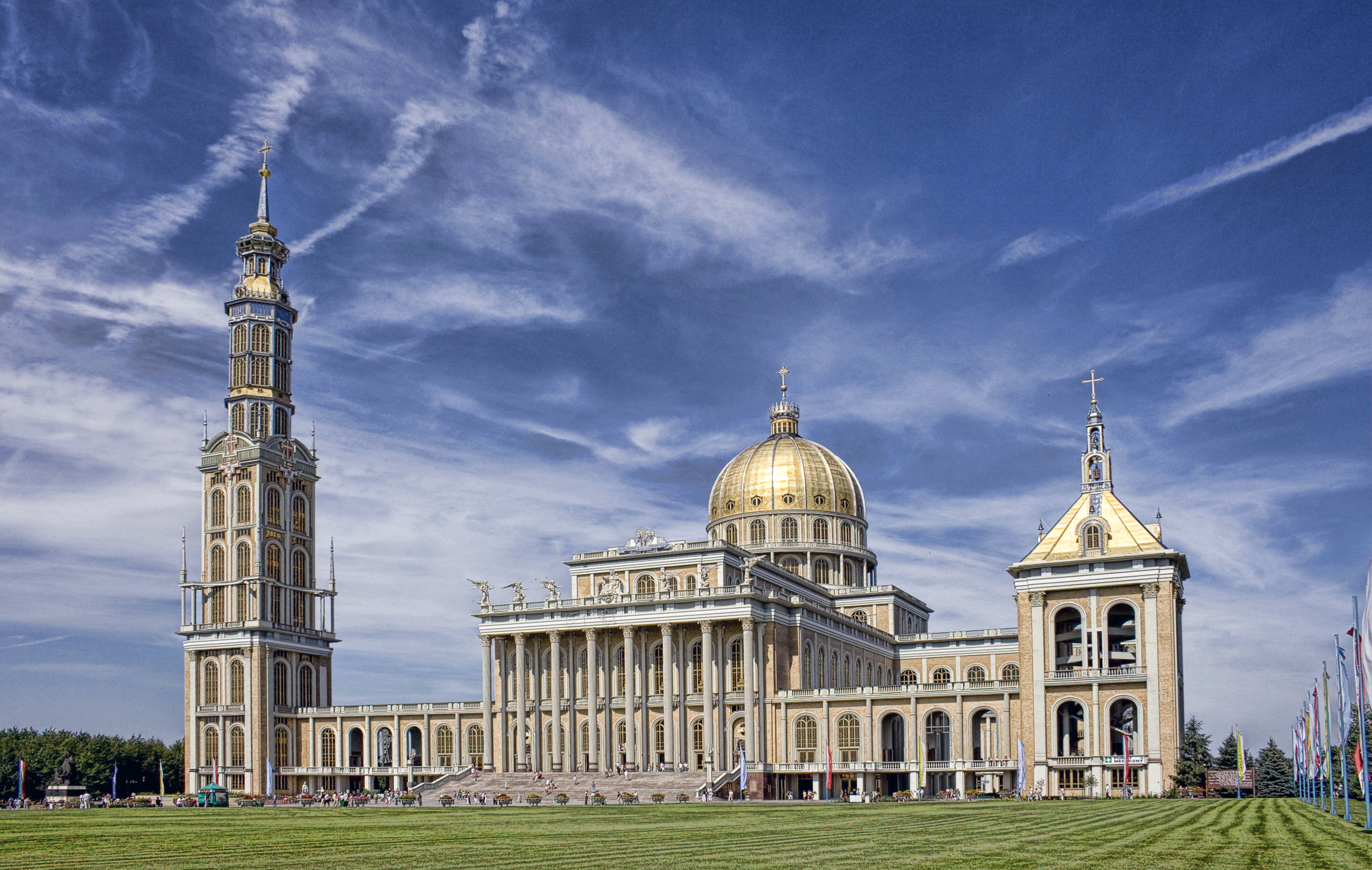 Basilica in Licheń Stary - the largest church in Poland.